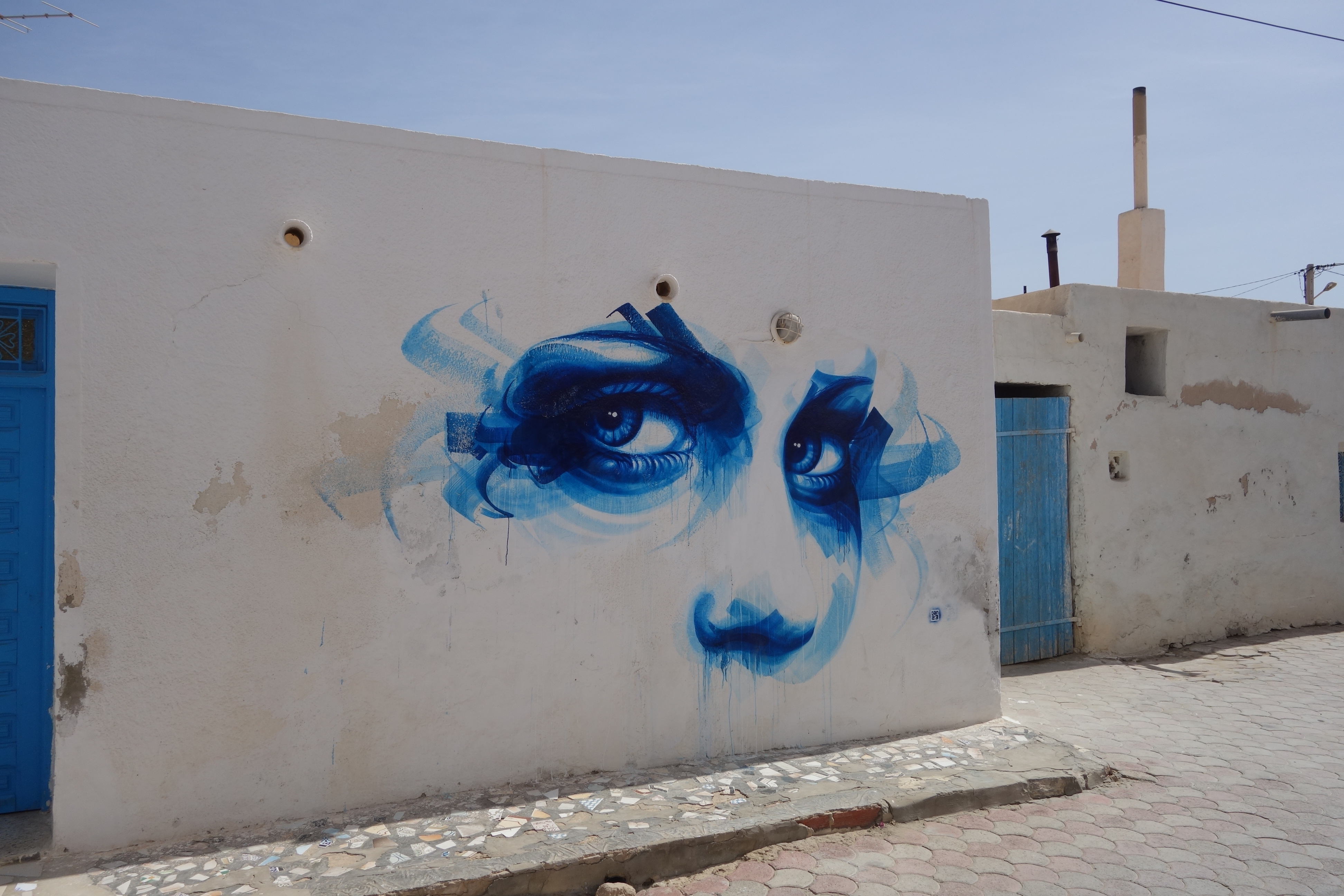 Djerba Er Riadh Street Art